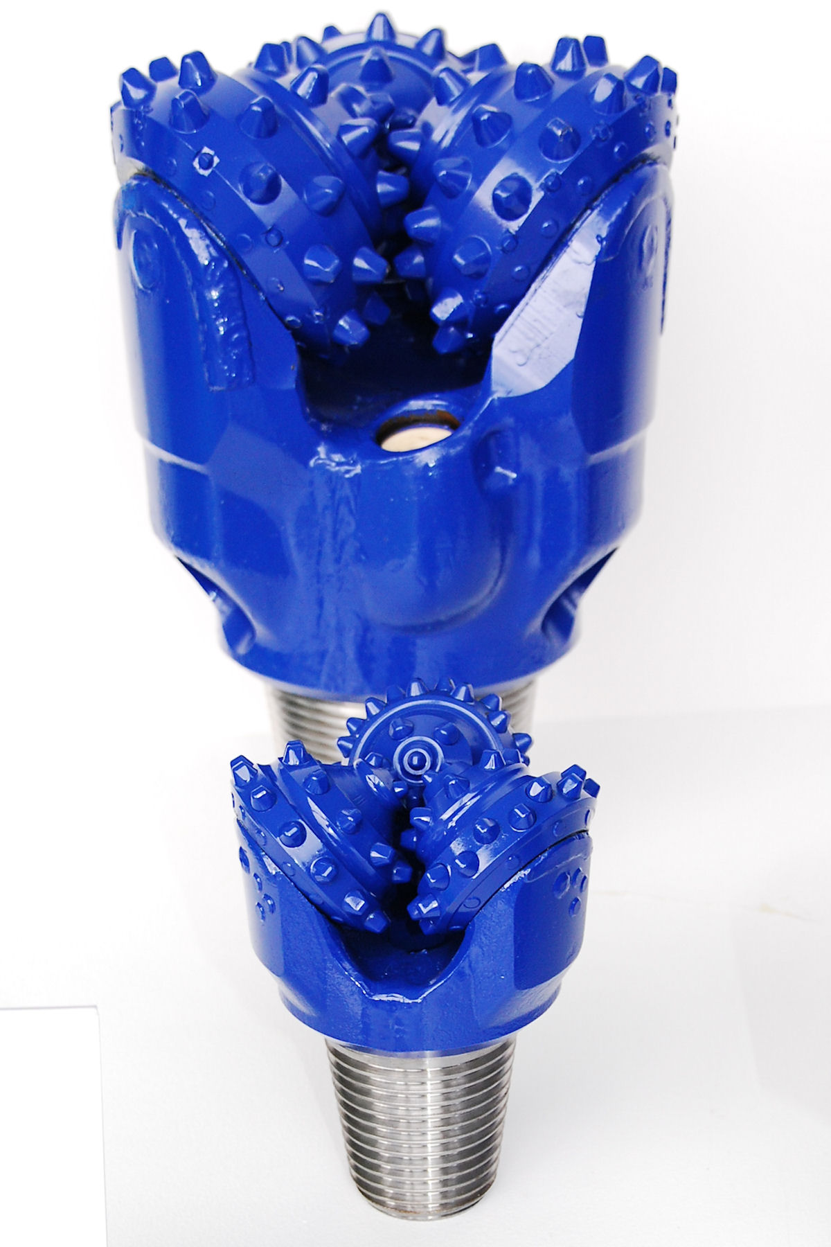 Roller cone drill bit. The photograph was taken during International Mining, Power Industry and Steel Industry Trade Fair in Katowice, Spodek exhibition centre